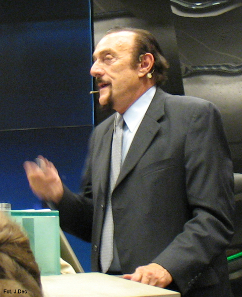 Philip George Zimbardo in Warsaw, Poland - 07.04.2009